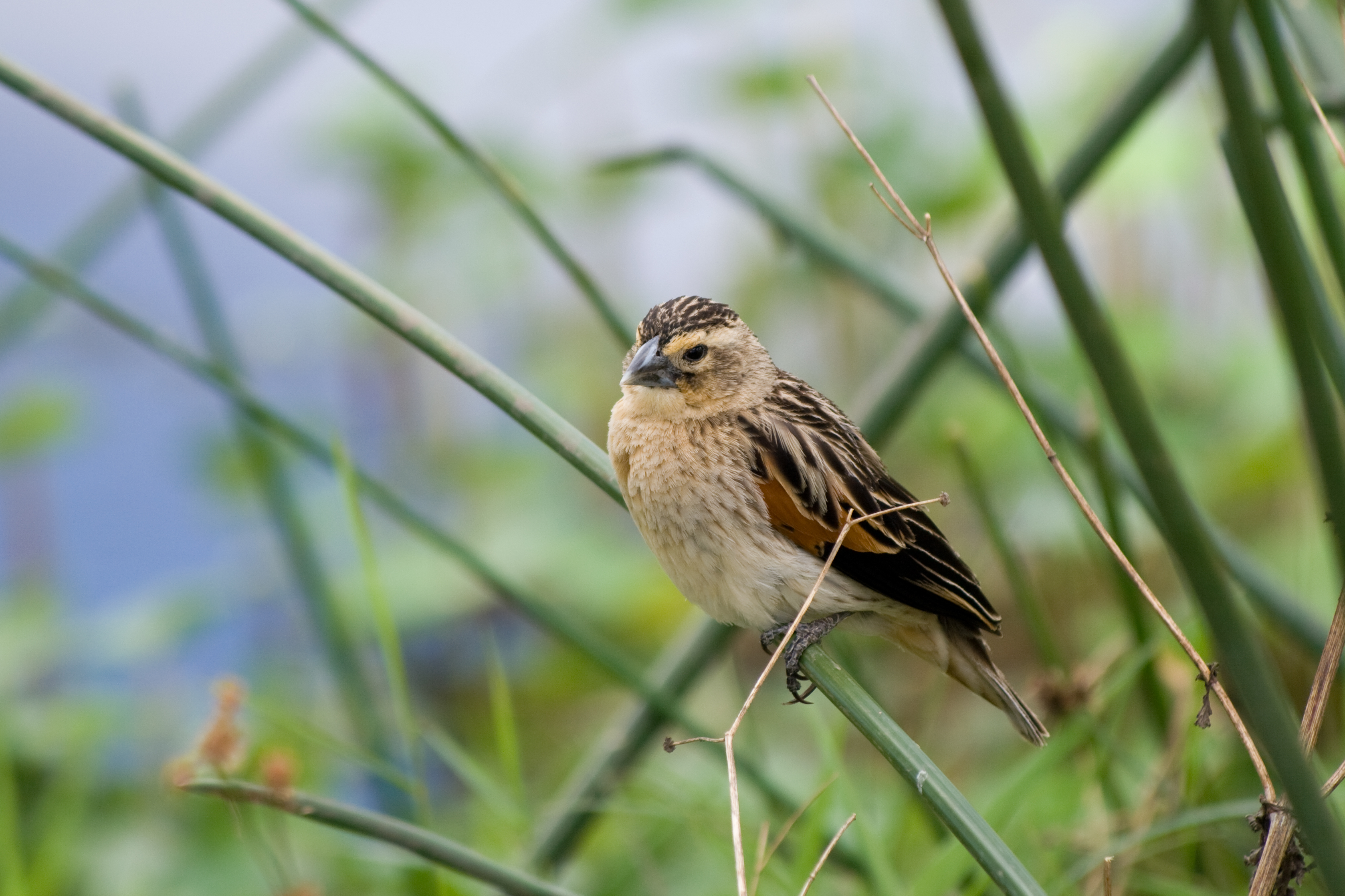 A male Fan-tailed widowbird (in eclipse plumage) at Ngoitokitok Springs, Ngorongoro Crater, Tanzania